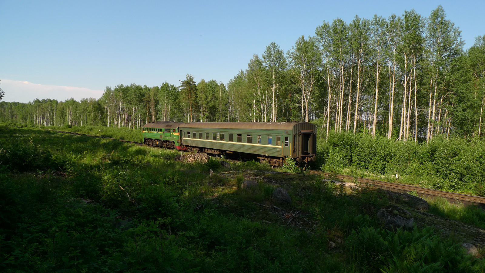 Vyborg — Khiytola commuter train